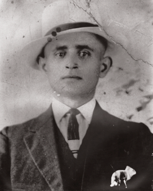 Ilias Gioulekas